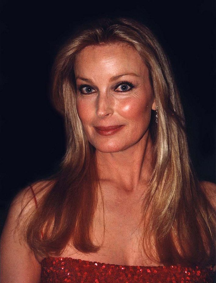 From Wash. D.C. 1998